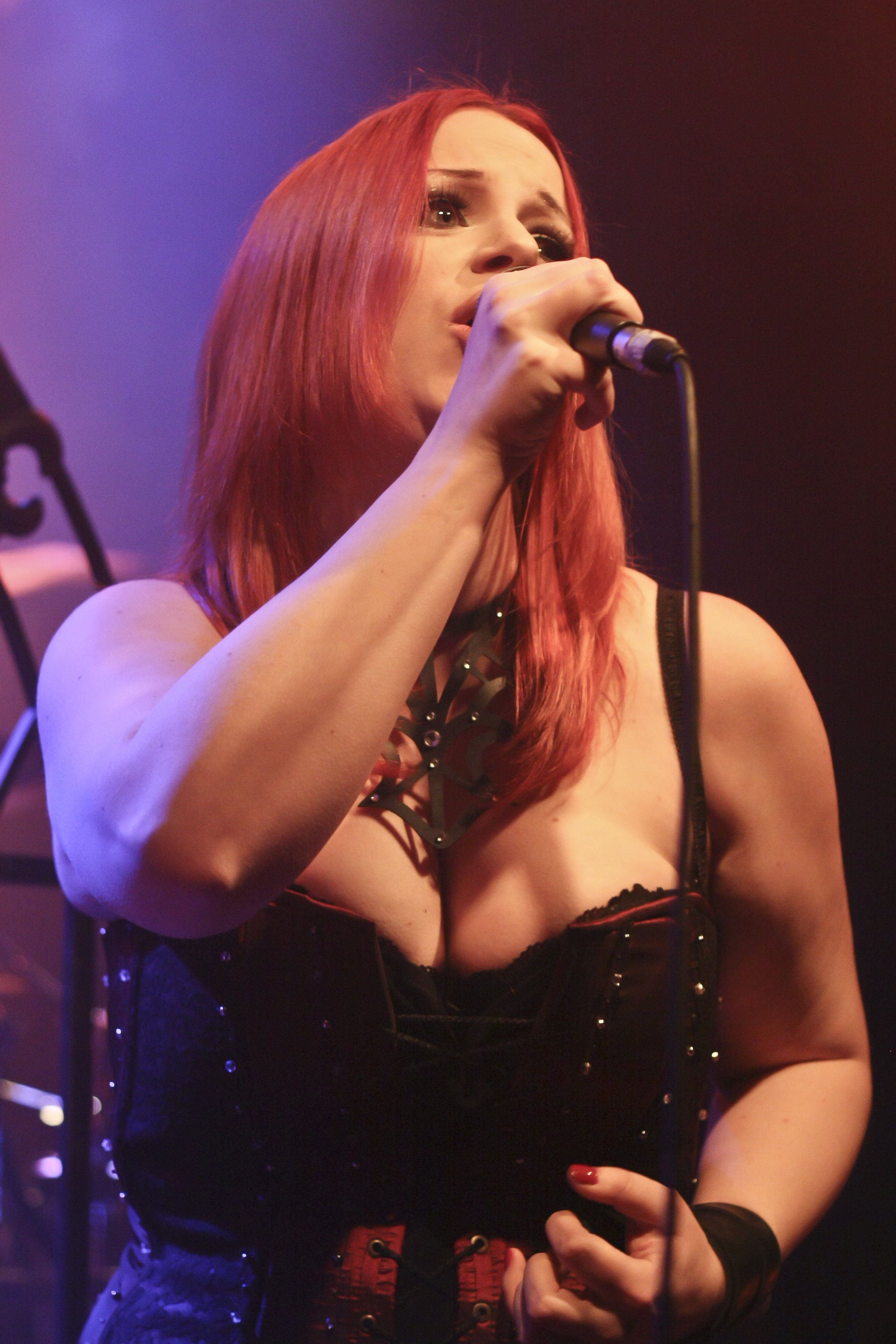 Lisa Middelhauve